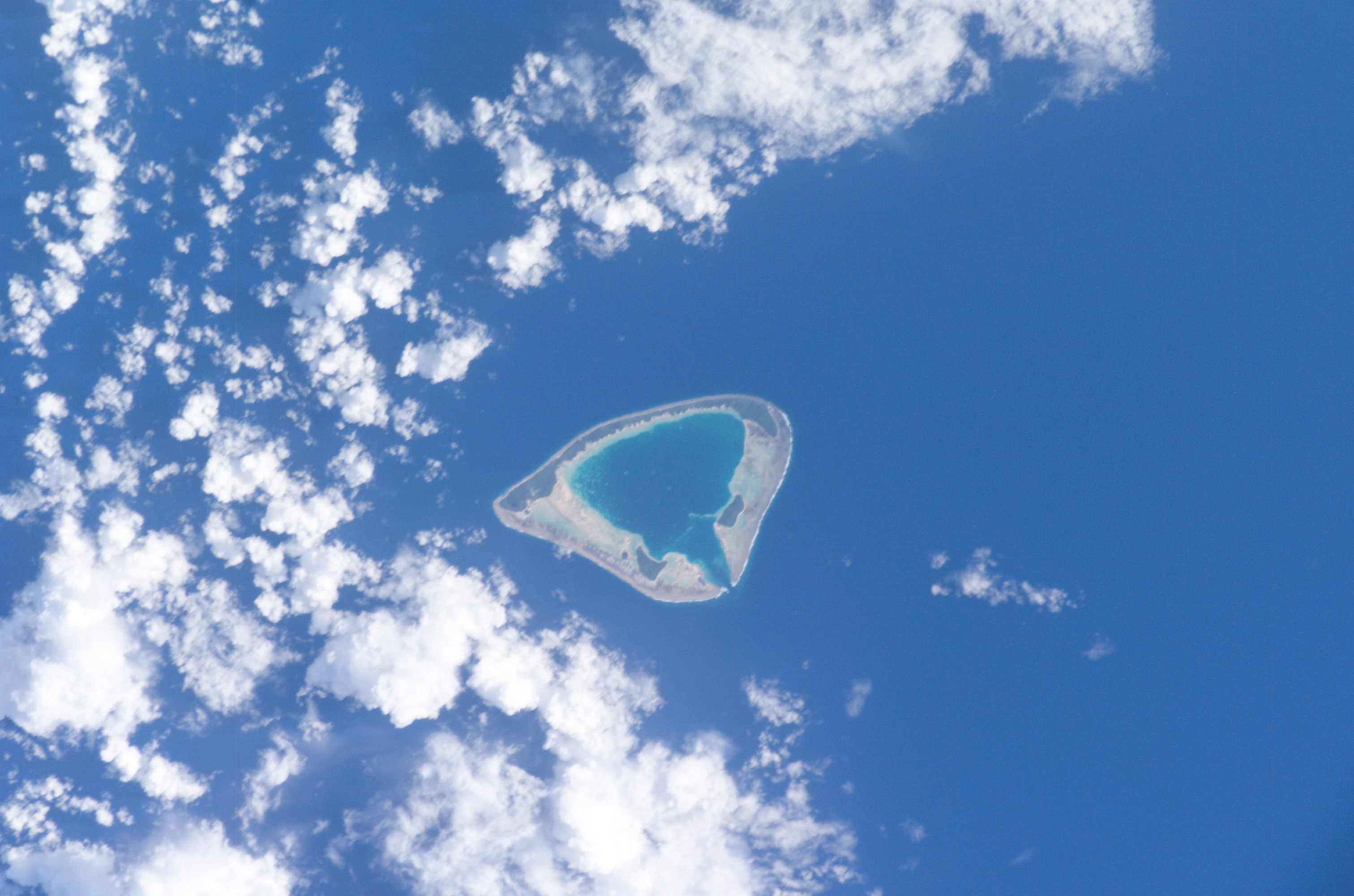 An image from the International Space Station of the Haraiki Atoll in the Tuamotu Archipelago, French Polynesia.